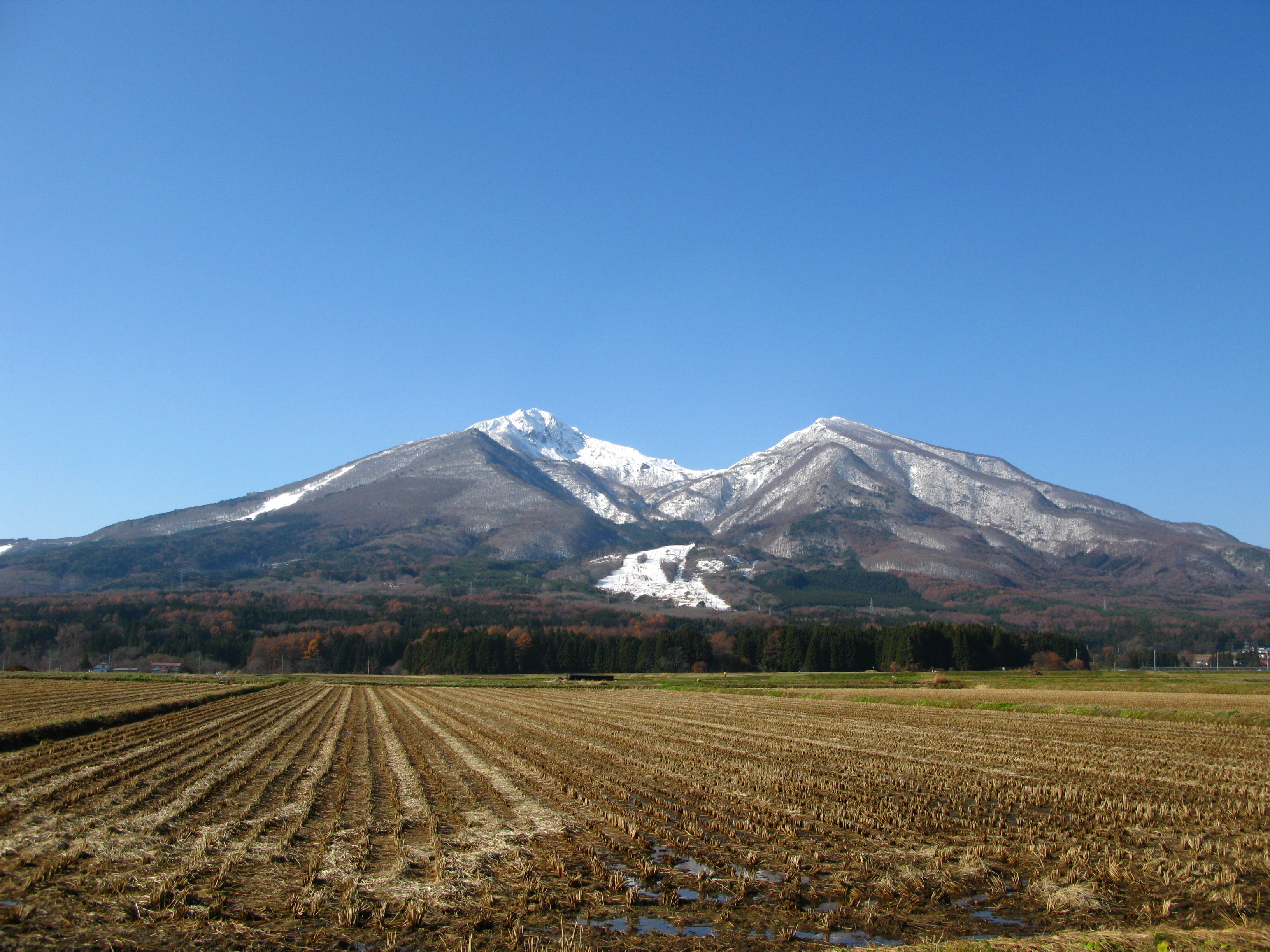 Mt.Bandaisan,Fukushima pref.,Japan